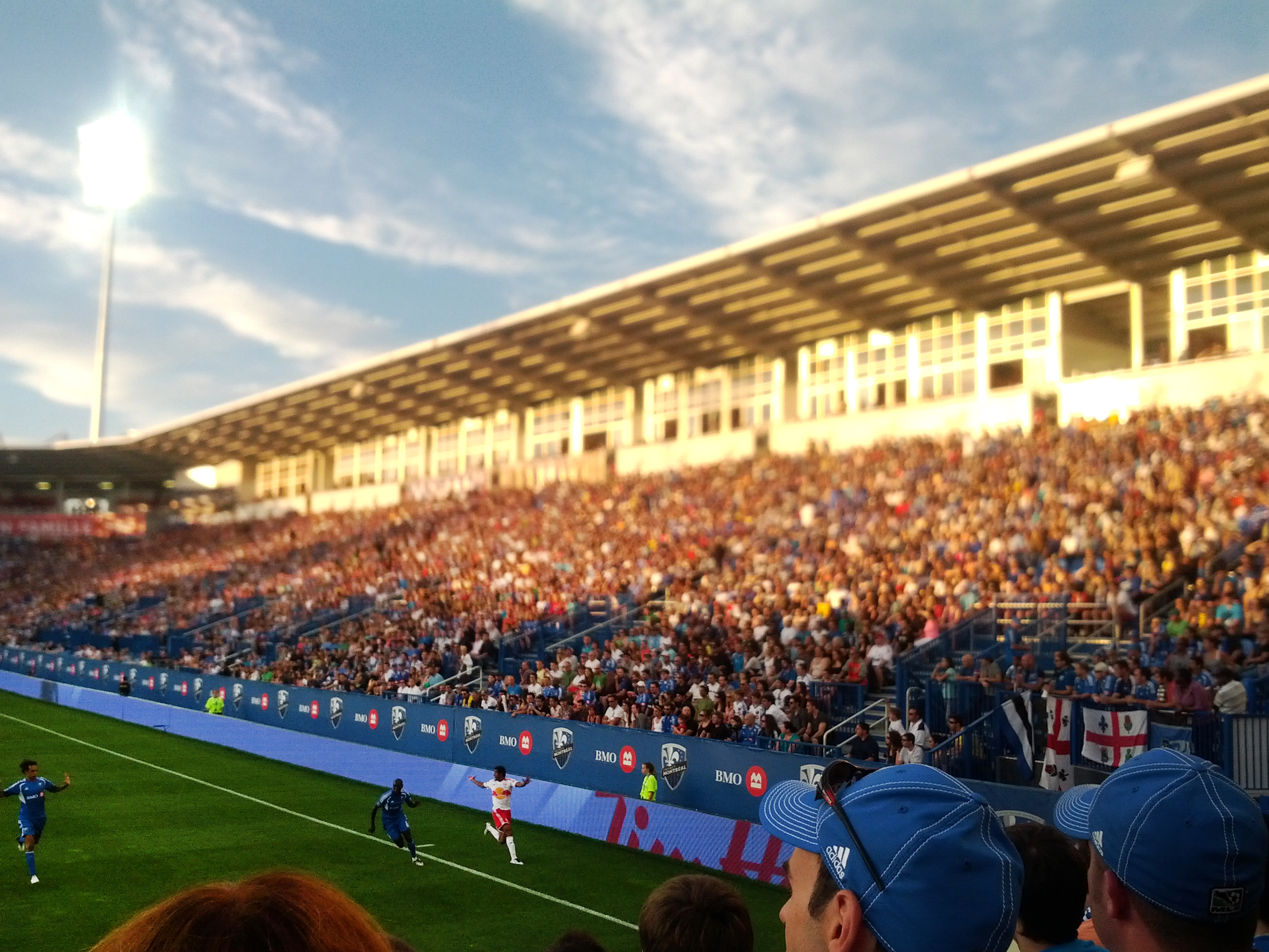 Montreal Impact's Hassoun Camara (player in the middle) and Red Bull New York's Roy Miller during a Montreal sold out Major League Soccer game at Stade Saputo, 28 July 2012.